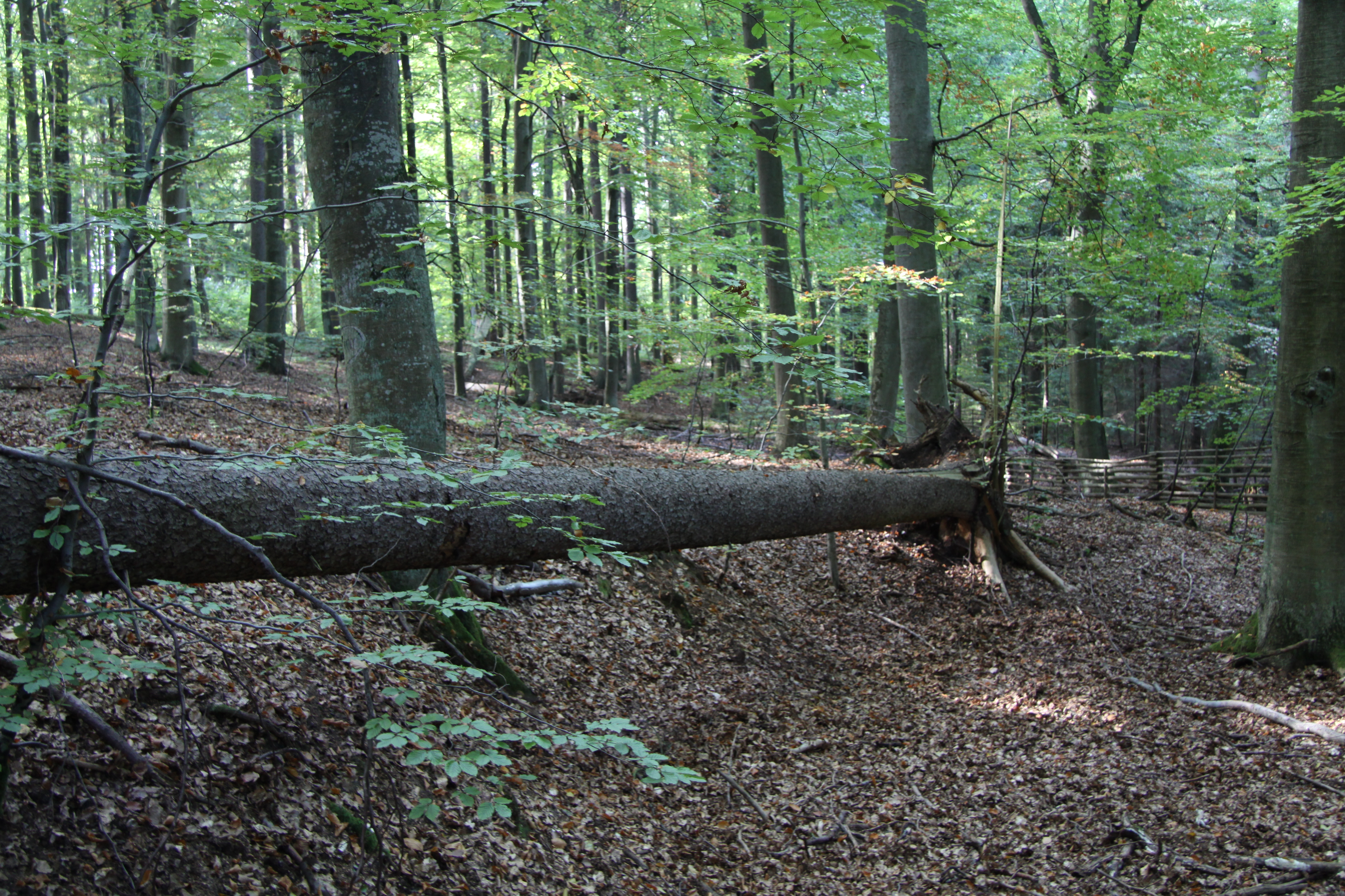 Natural monument Rukávečská obora, Písek District, Czech Republic